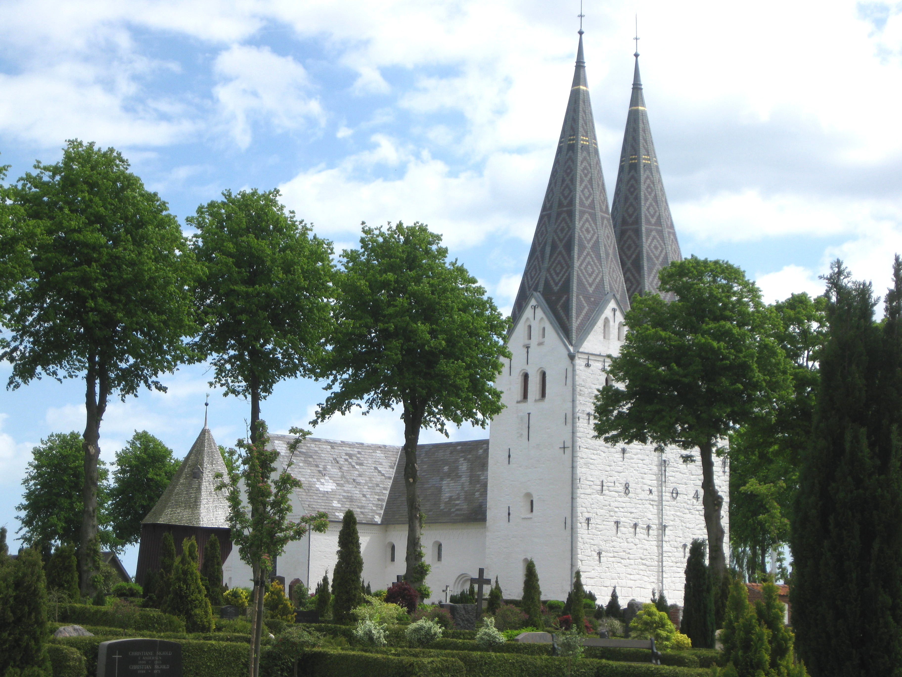 The church "Broager Kirke" in the small town "Broager". The town is located in Southern Jutland, Denmark.